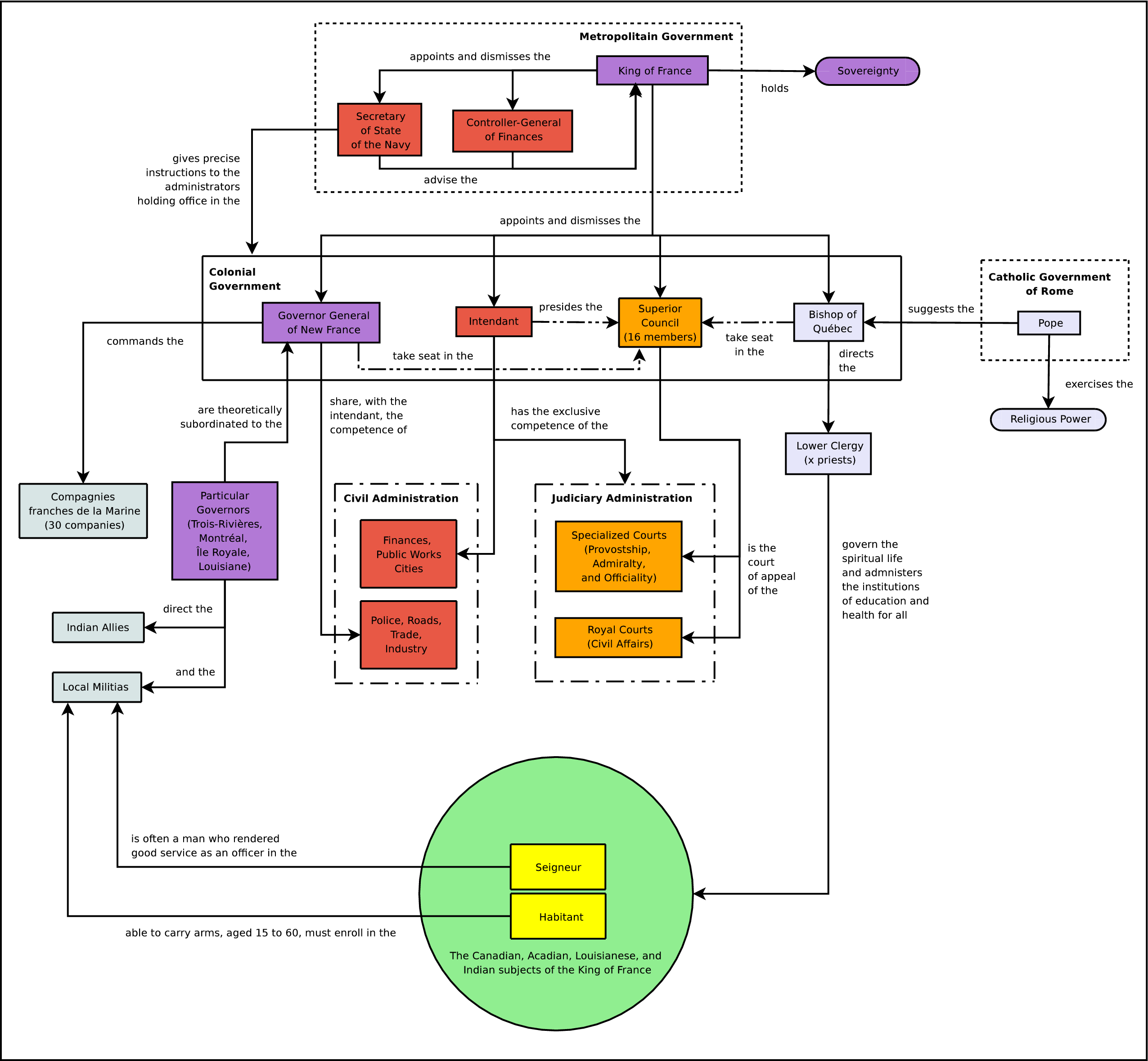 Constitution of New France (1759)